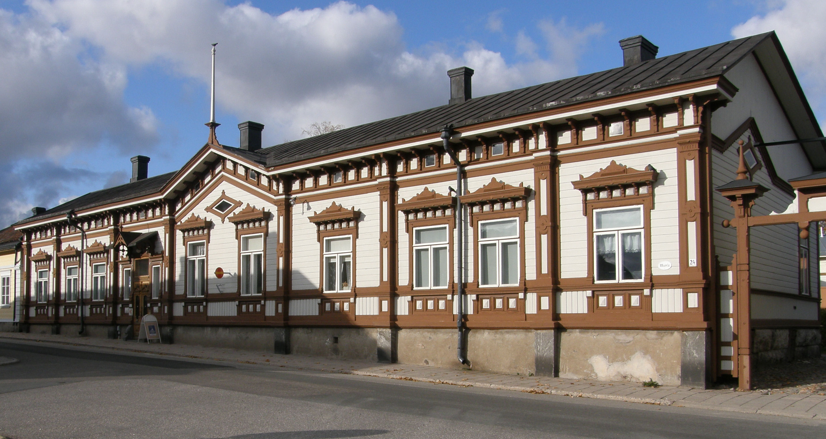 House Marela in Rauma Finland